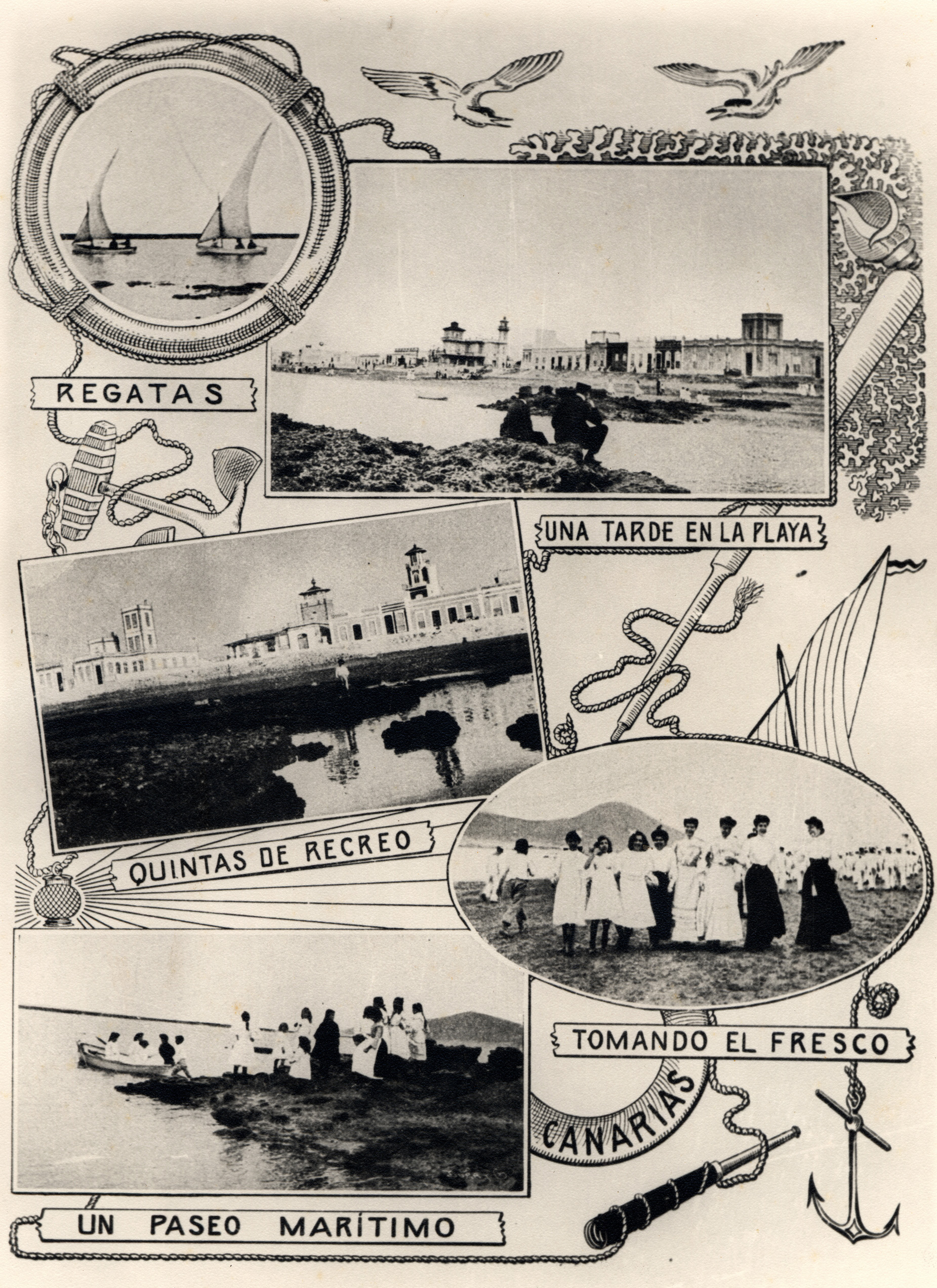 Las Canteras Beach, advertising poster. Las Palmas de Gran Canaria, Canary Islands (Spain).